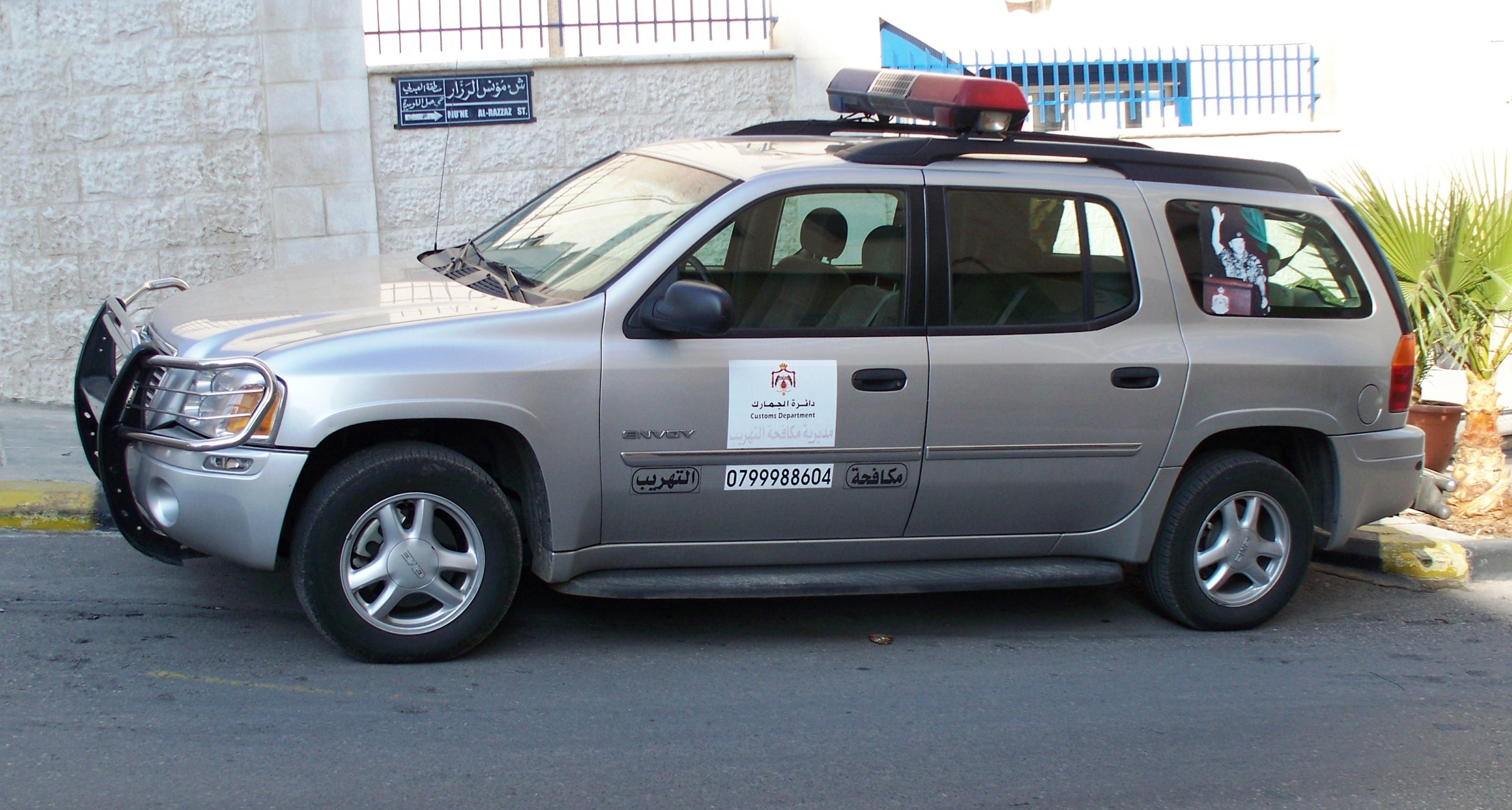 Vehicle of the Customs Department of Jordan in Amman, Jordan.